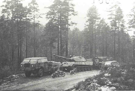 A King Tiger in Sweden under transport during the years 1947 and 1956.